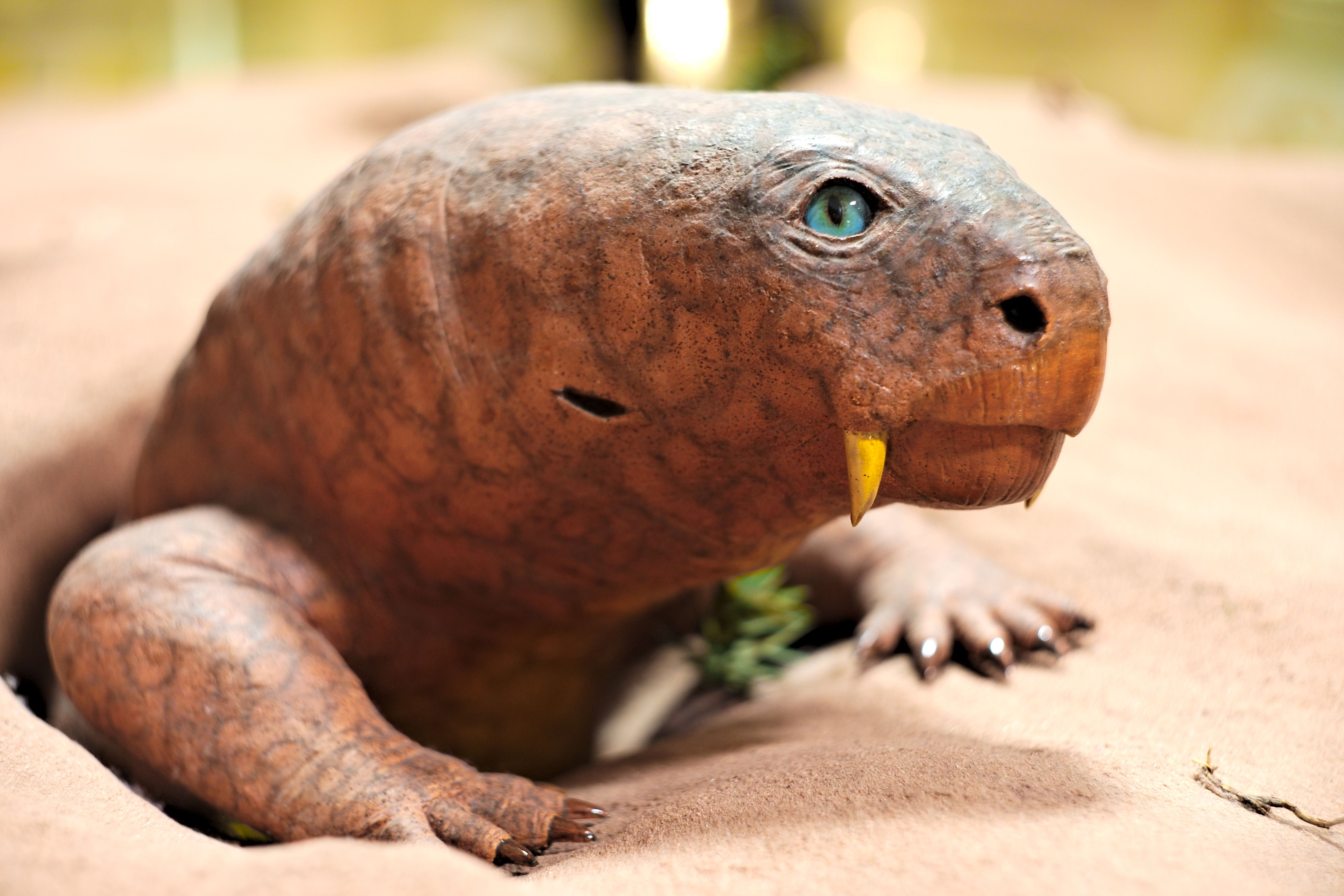 Diictodon, Diictodontidae; Perm, Model in life size; Staatliches Museum für Naturkunde Karlsruhe, Germany.